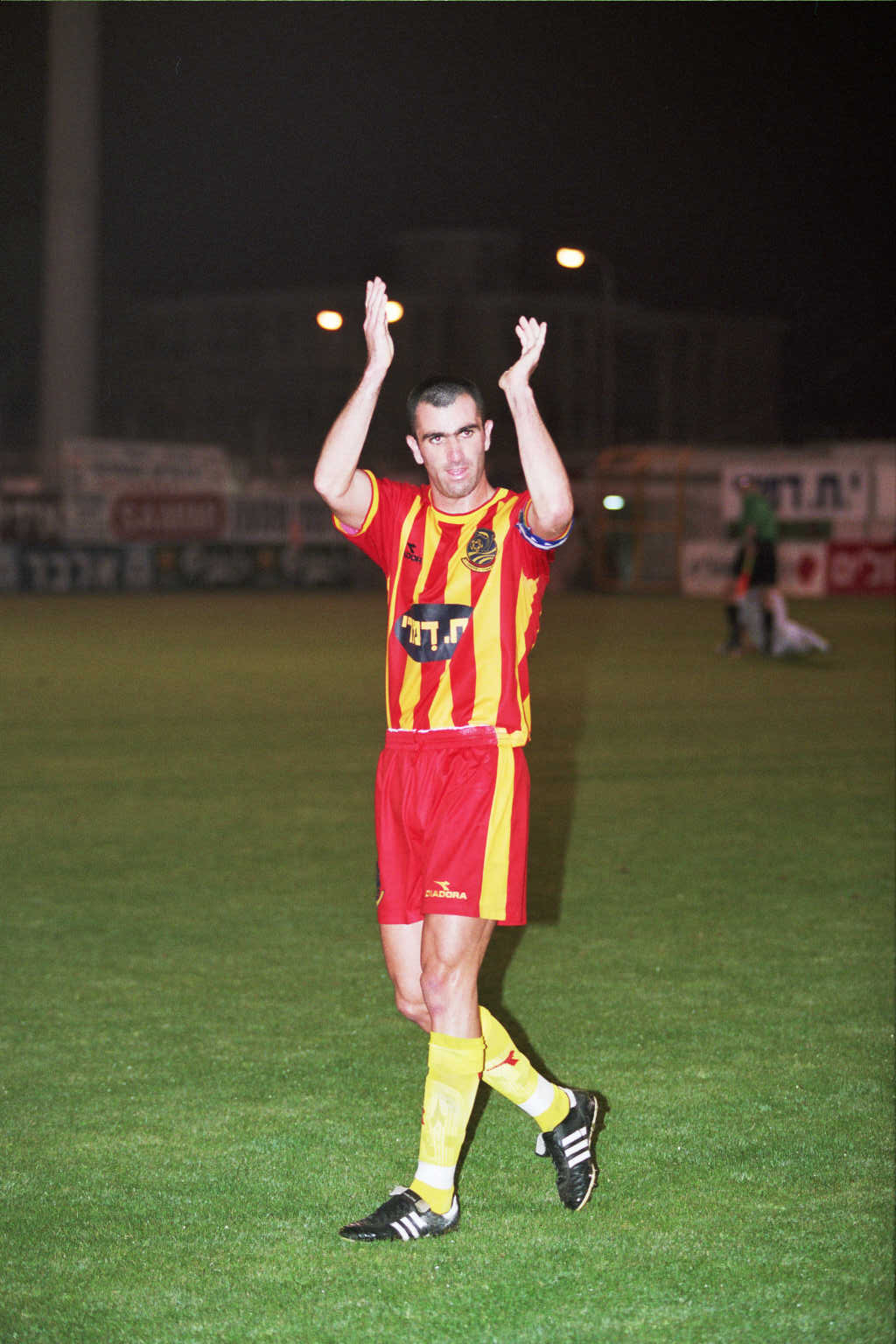 Shay Holtzman, footballer of Israel